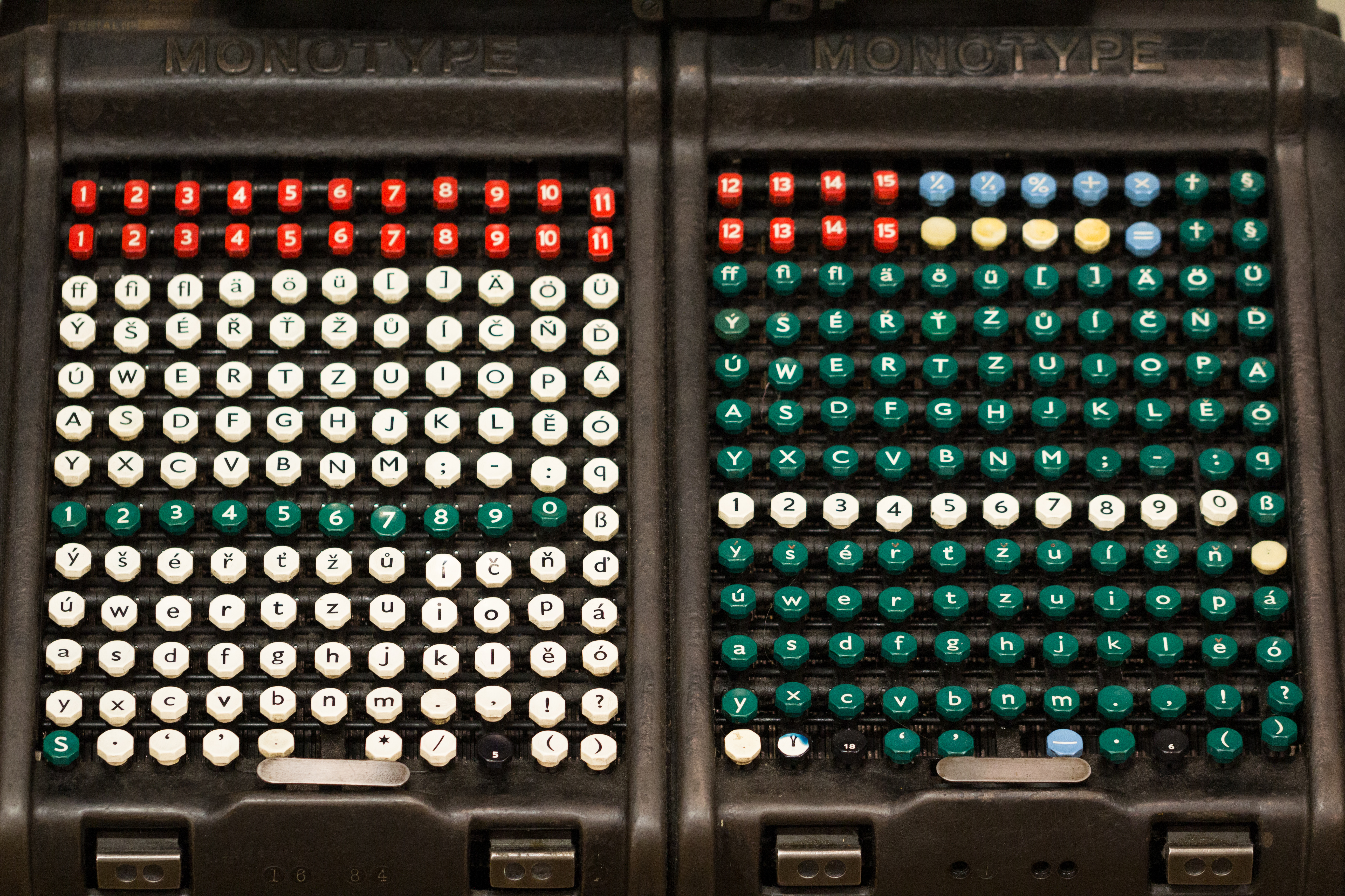 A 1935 Monotype typesetter keyboard in the National Technical Museum, Prague